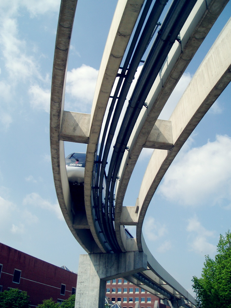 Section of the 1.5 mile track of monorail Clarian People Mover.